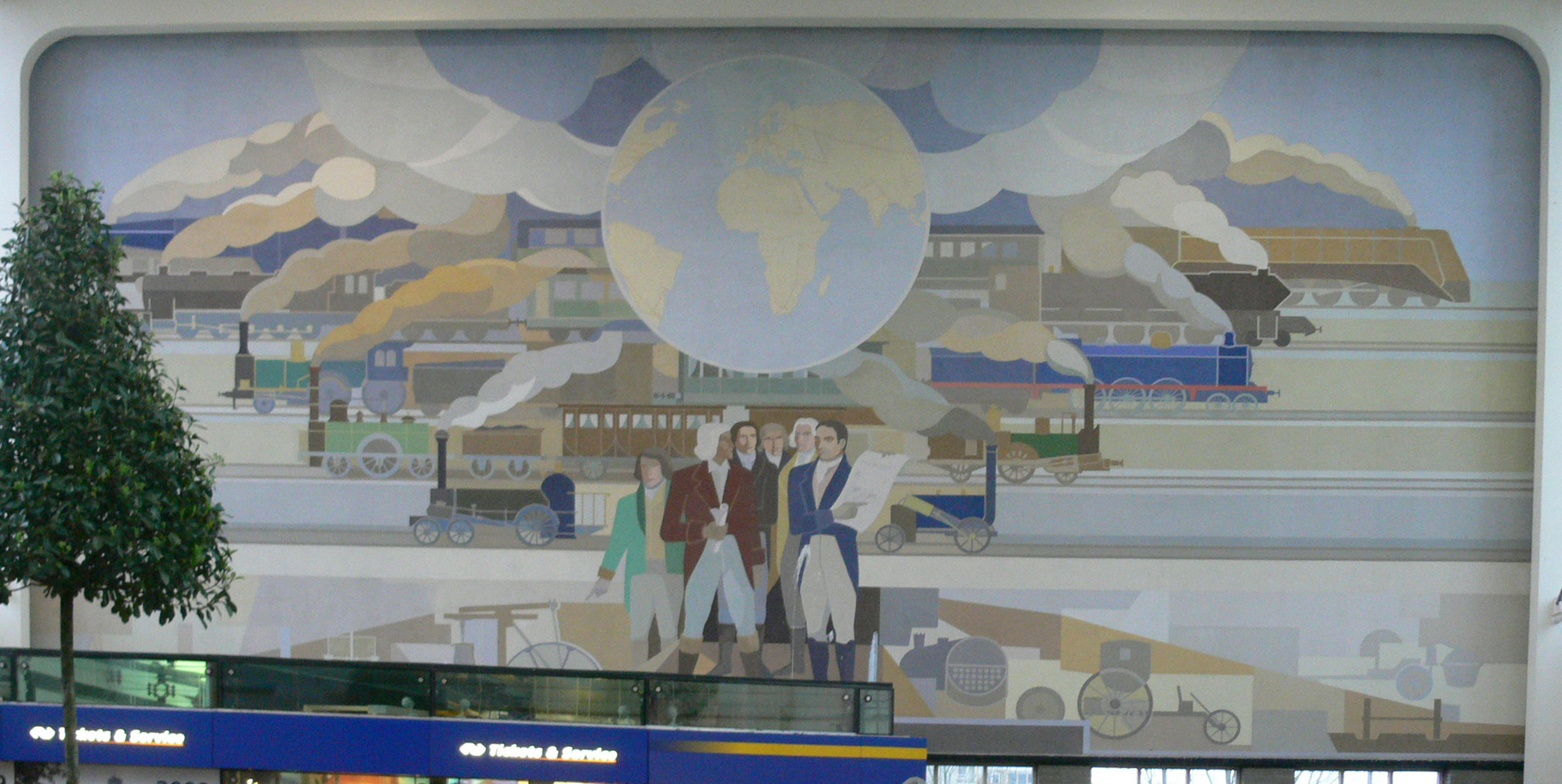 Painting by Peter Alma in Amstel Station, Amsterdam